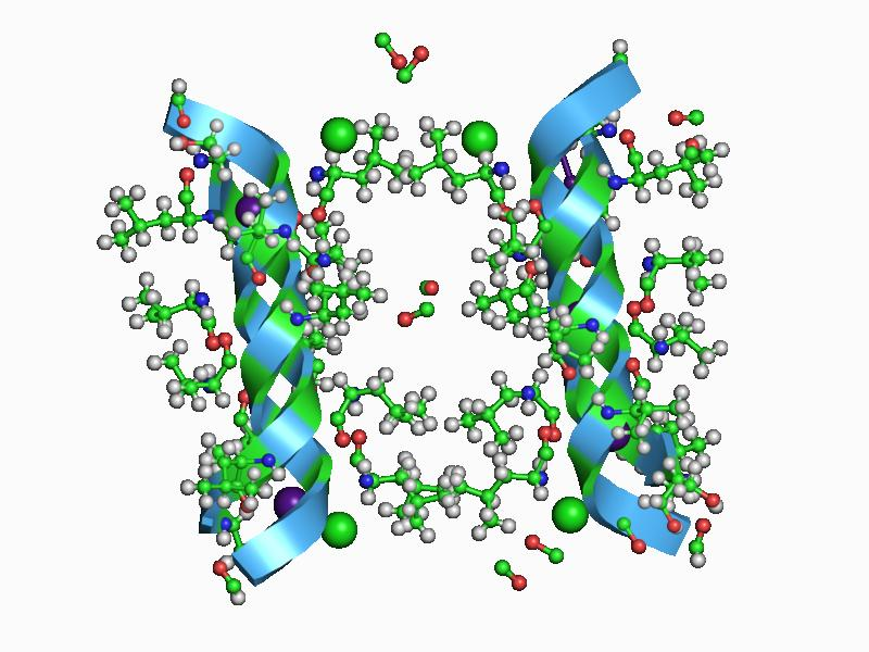 Cartoon representation of the molecular structure of protein registered with 1av2 code.